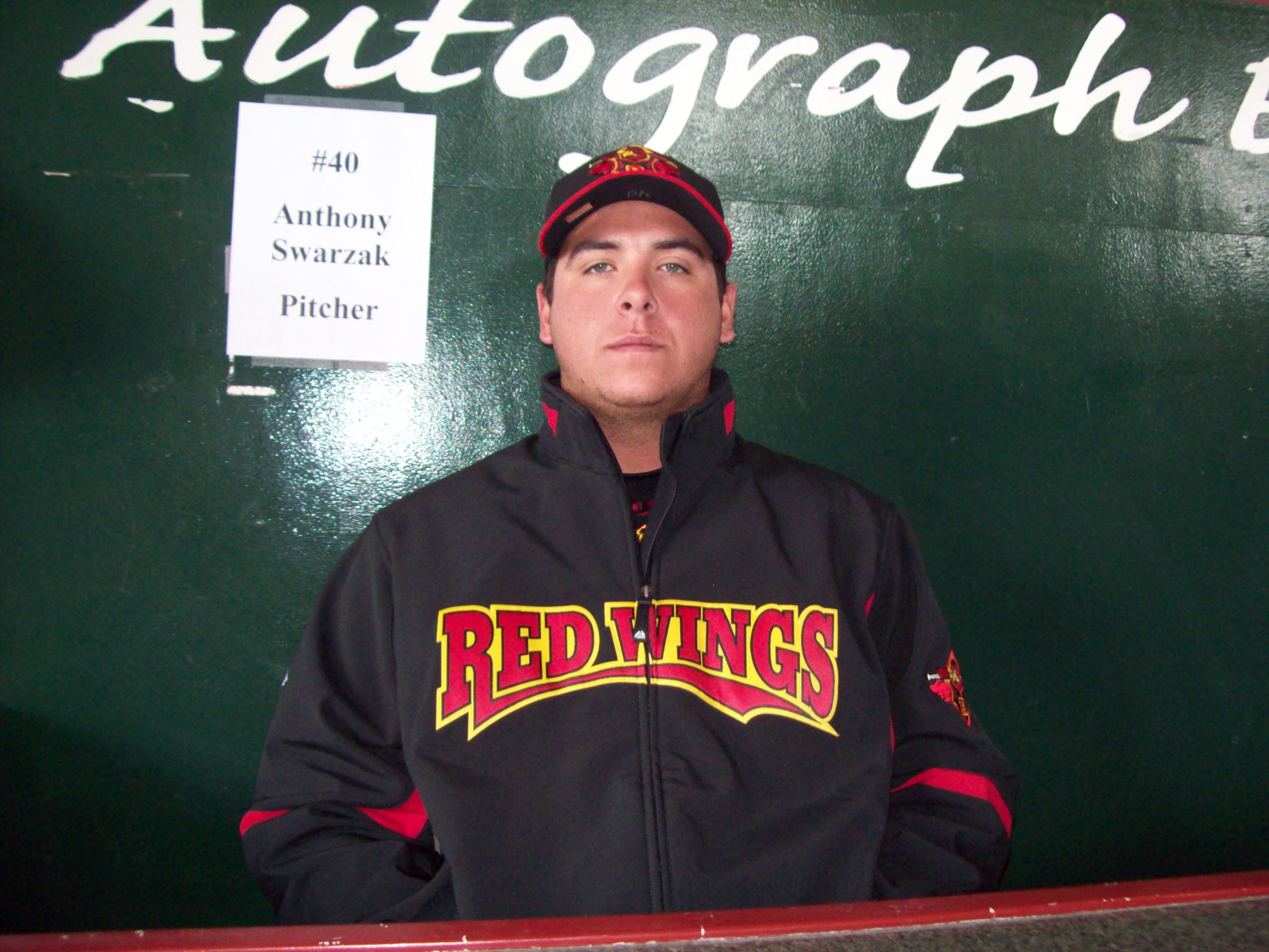 Anthony Swarzak 4/15/09 18:17, 15 April 2009 . . Phil5329 . . 3,296×2,472 (881 KB)